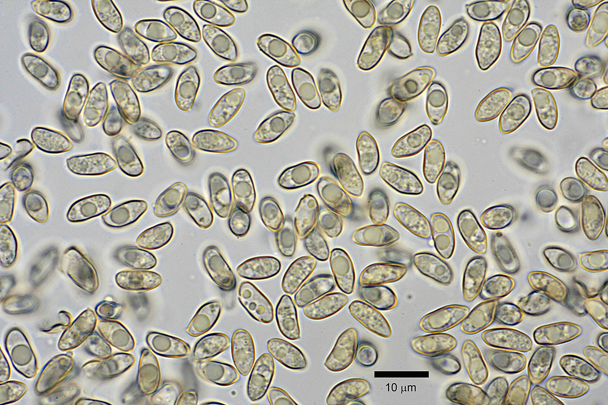 Inocybe sambucina (Fr.) Quél. Observation Notes: A view of Inocybe sambucina fungal spores. A 20 Spore average was 8.8 × 4.0 microns, Qm = 2.18. For more information about this, see the observation page at Mushroom Observer.